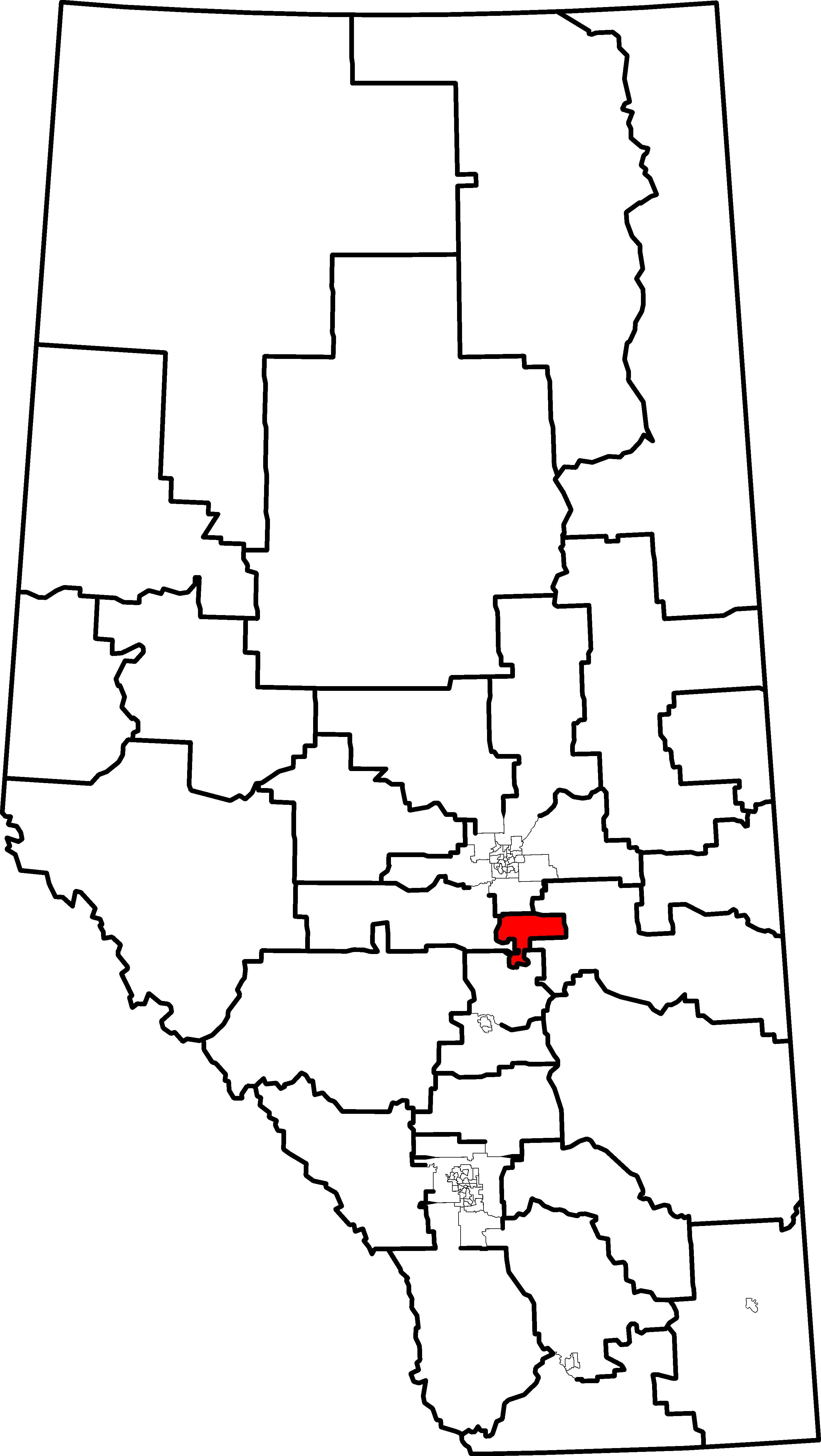 A map of the Alberta provincial electoral districts, effective 2010. Wetaskiwin-Camrose is highlighted in red.